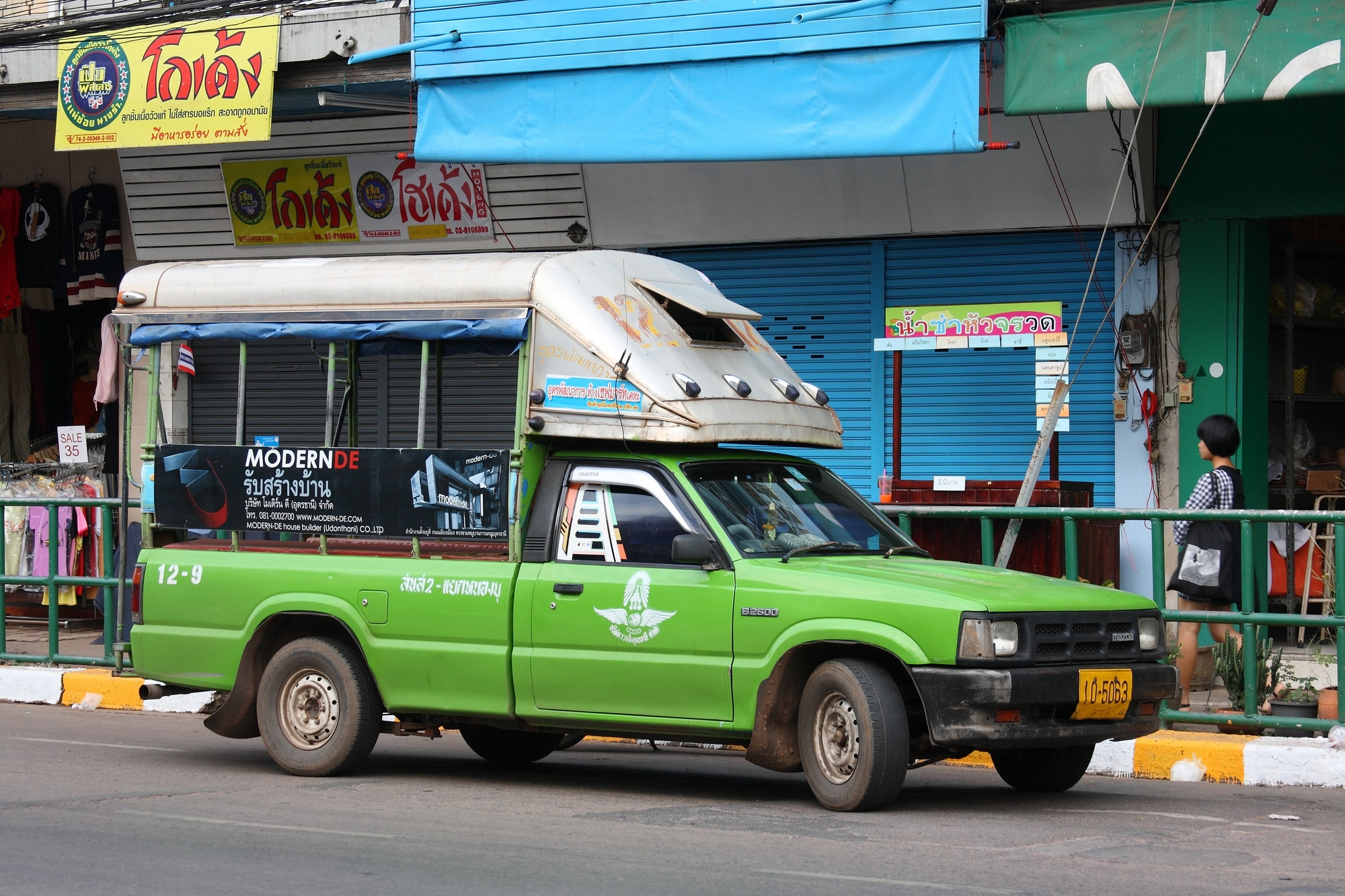 Songthaew in Udon Thani, Thailand (Mazda B2500)